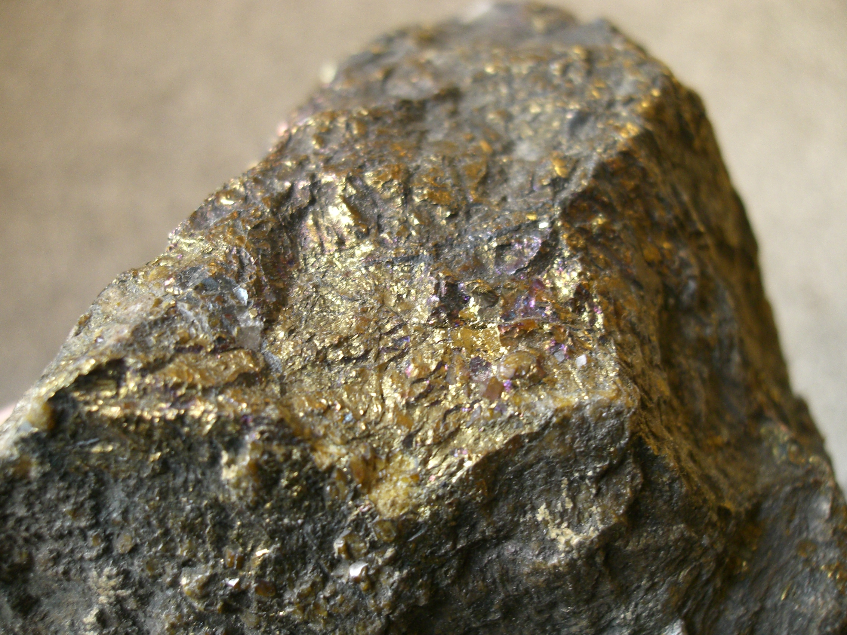 Chalcopyrite